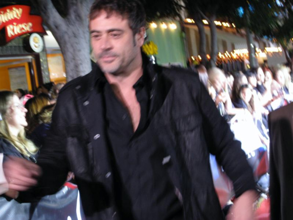 American actor Jeffrey Dean Morgan at the Twilight premiere. November 2008